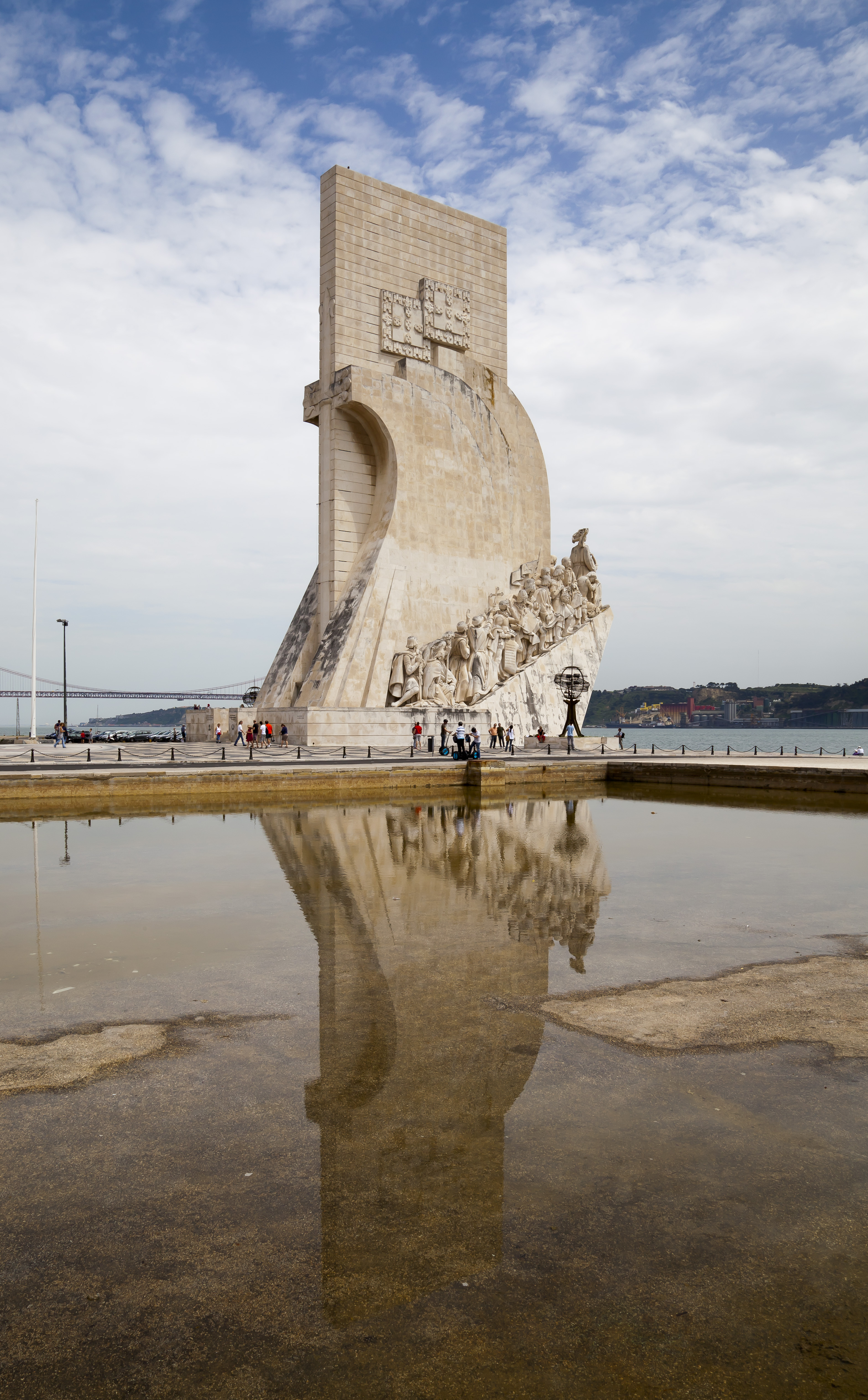 Monument to the Discoveries in Belém (Lisbon), Portugal